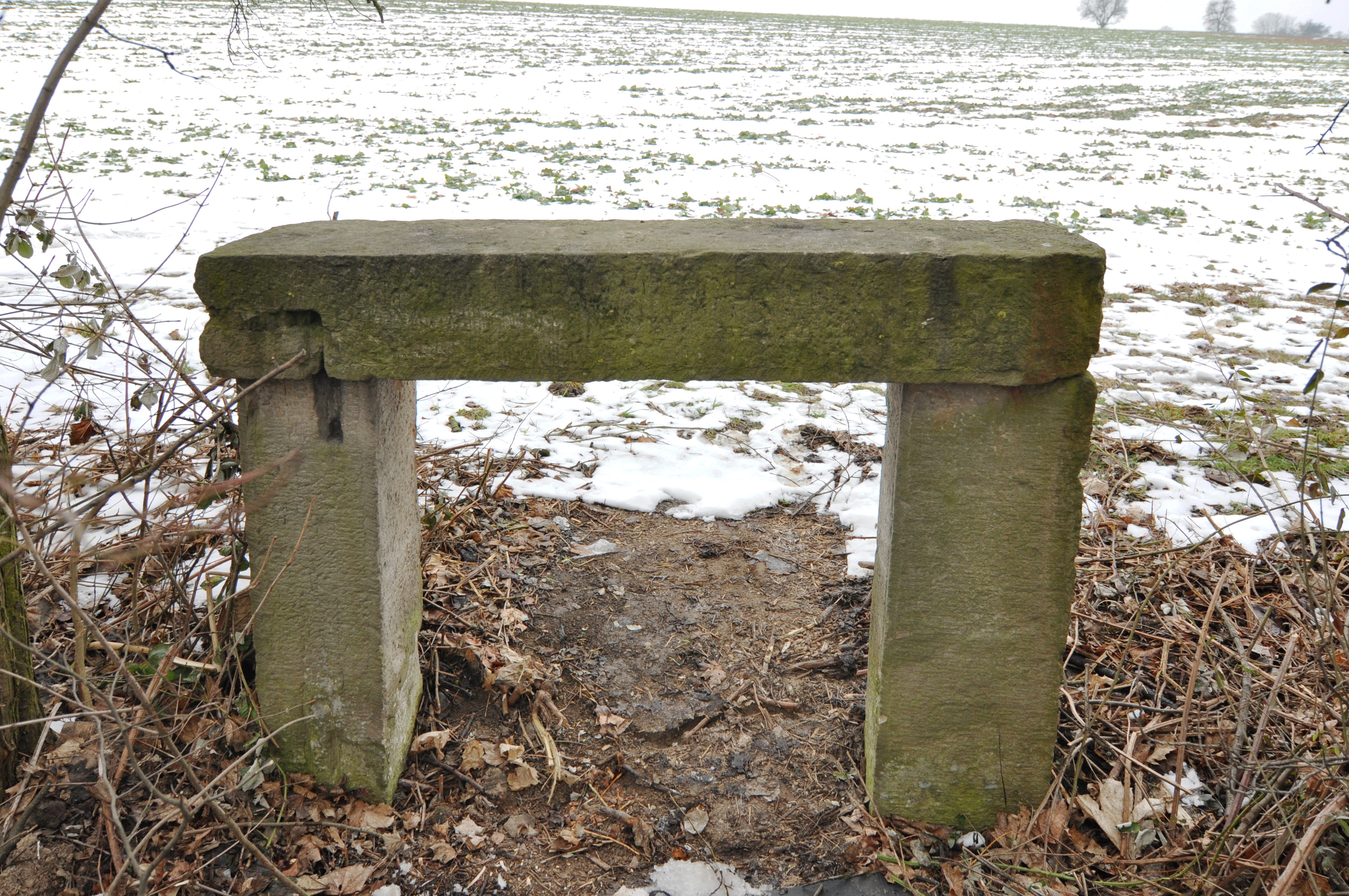 Old stone rest bench north above Bietigheim-Bissingen